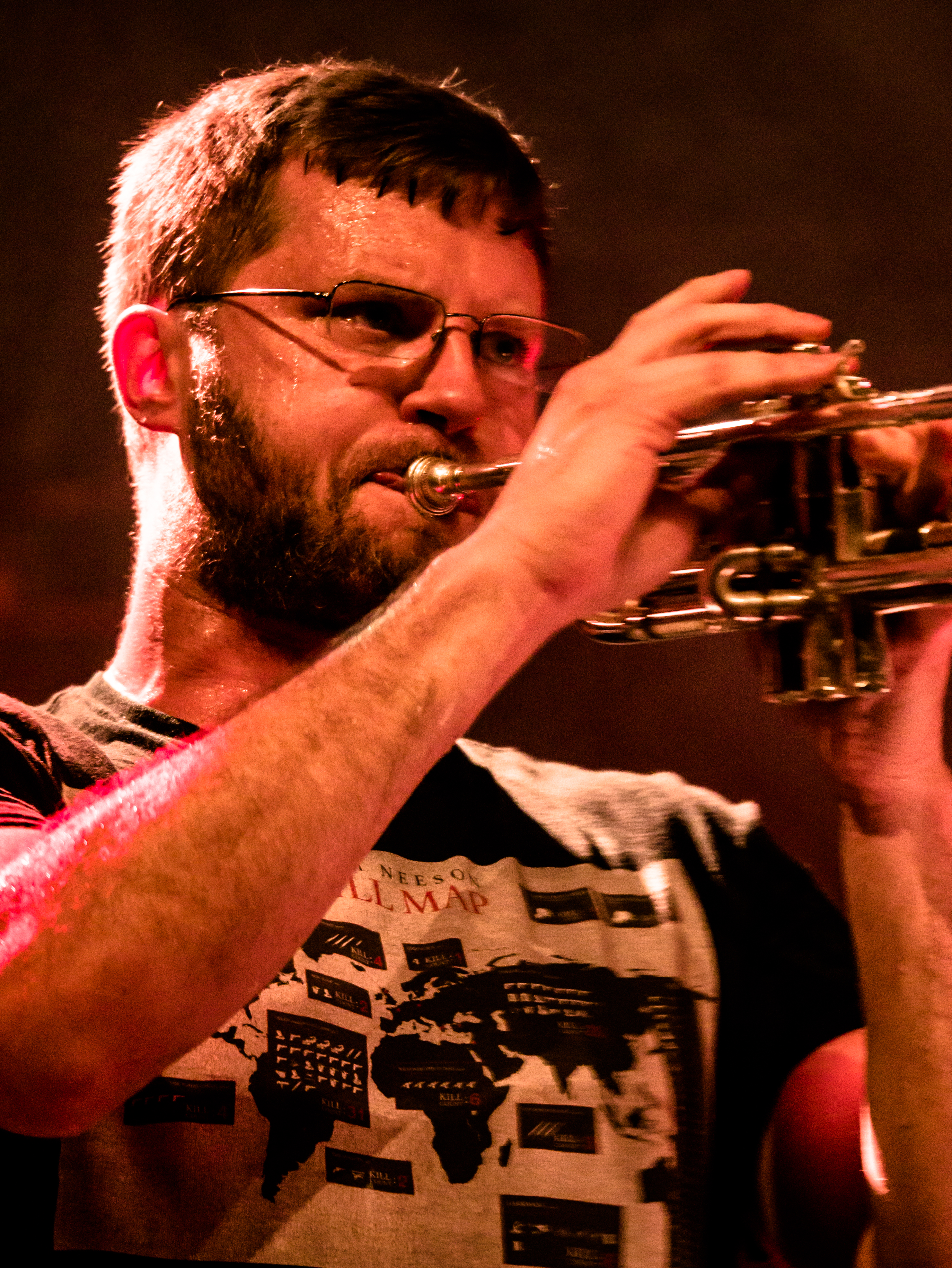 US-american trumpet player Peter Evans at the Moers Festival 2015